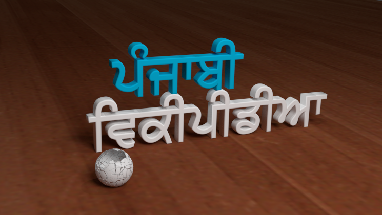 A blender 2.74 rendition saying Panjabi (blue) Wikipedia in Gurmukhi script.